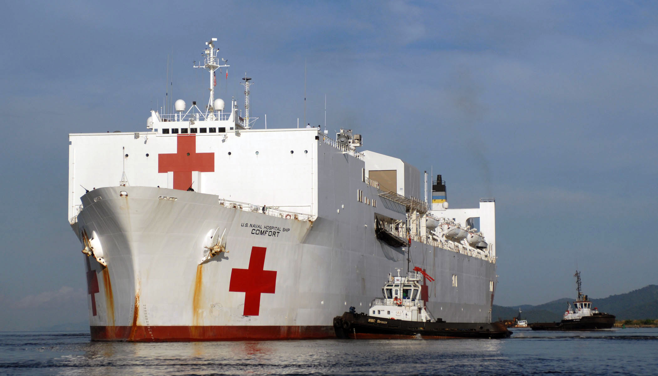 PORT-OF-SPAIN, Trinidad and Tobago (Sept. 22, 2007) – Military Sealift Command hospital ship USNS Comfort (T-AH 20) is pushed from the pier by tugboats after completing nearly a week of medical aid in Trinidad and Tobago. Comfort is on a four-month humanitarian deployment to Latin America and the Caribbean providing medical treatment in a dozen countries. U.S. Navy photo by Mass Communication Specialist 2nd Class Steven King (RELEASED)